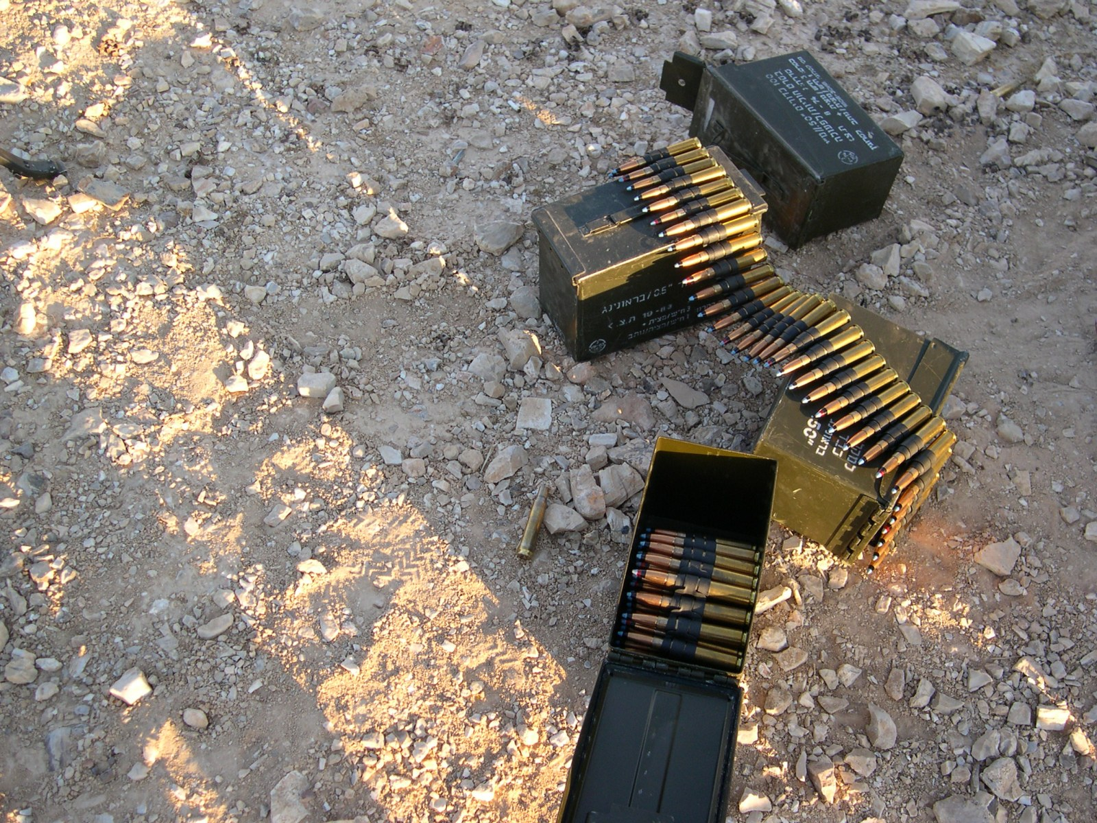 M2 (machine gun) machinegun ammunition 0.5 BMG, in use by the Israel Defense Forces